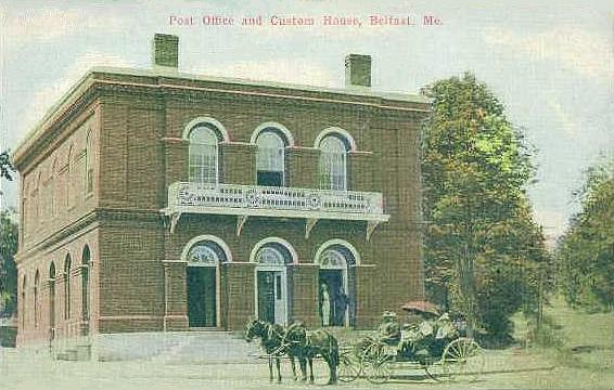 Old Post Office and Custom House, Belfast, ME; from a 1910 postcard.